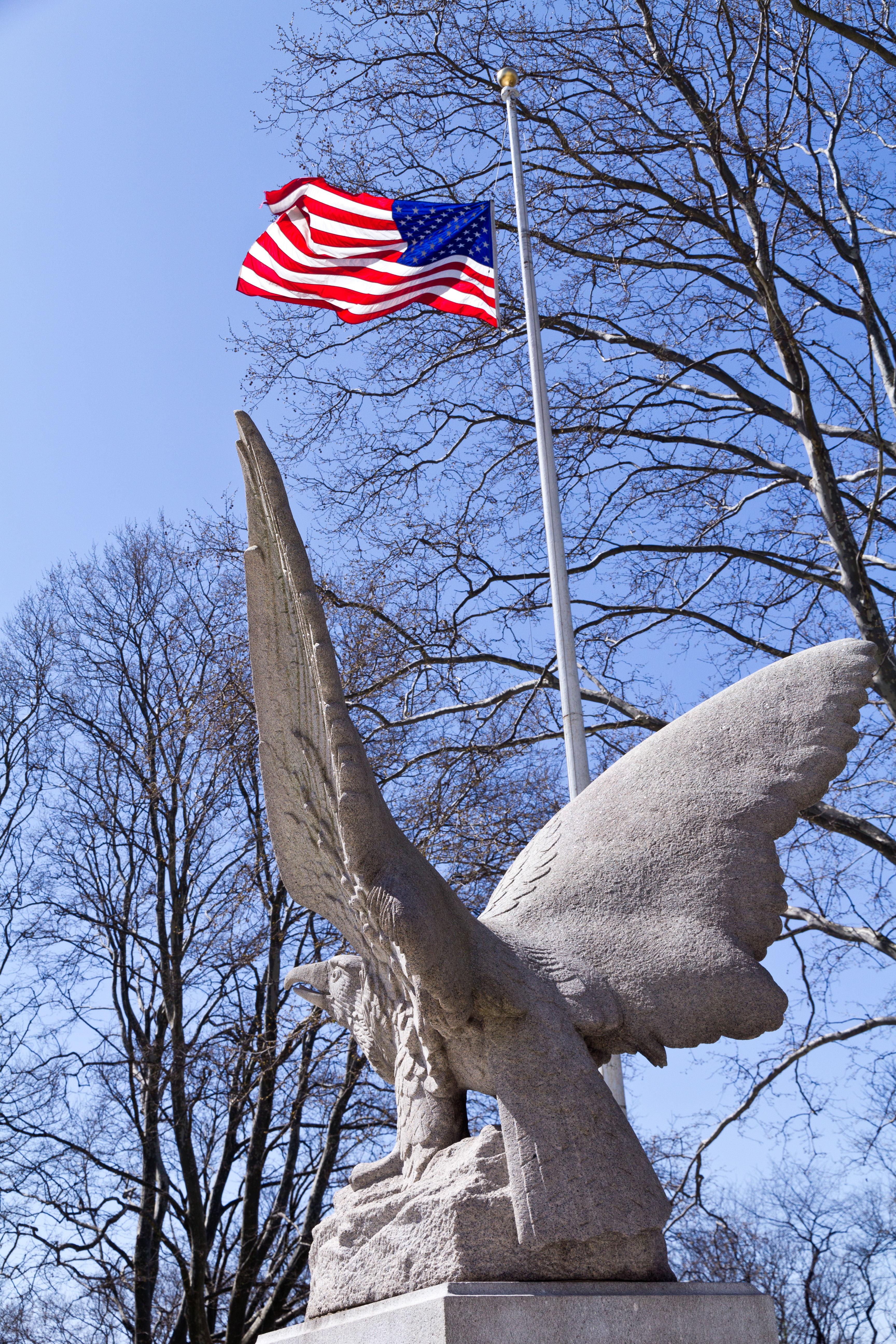 Flag viewed from behind the eagle, placed in front of the Memorial, eagle moved in 1935 from New York city post office [1]; [2]